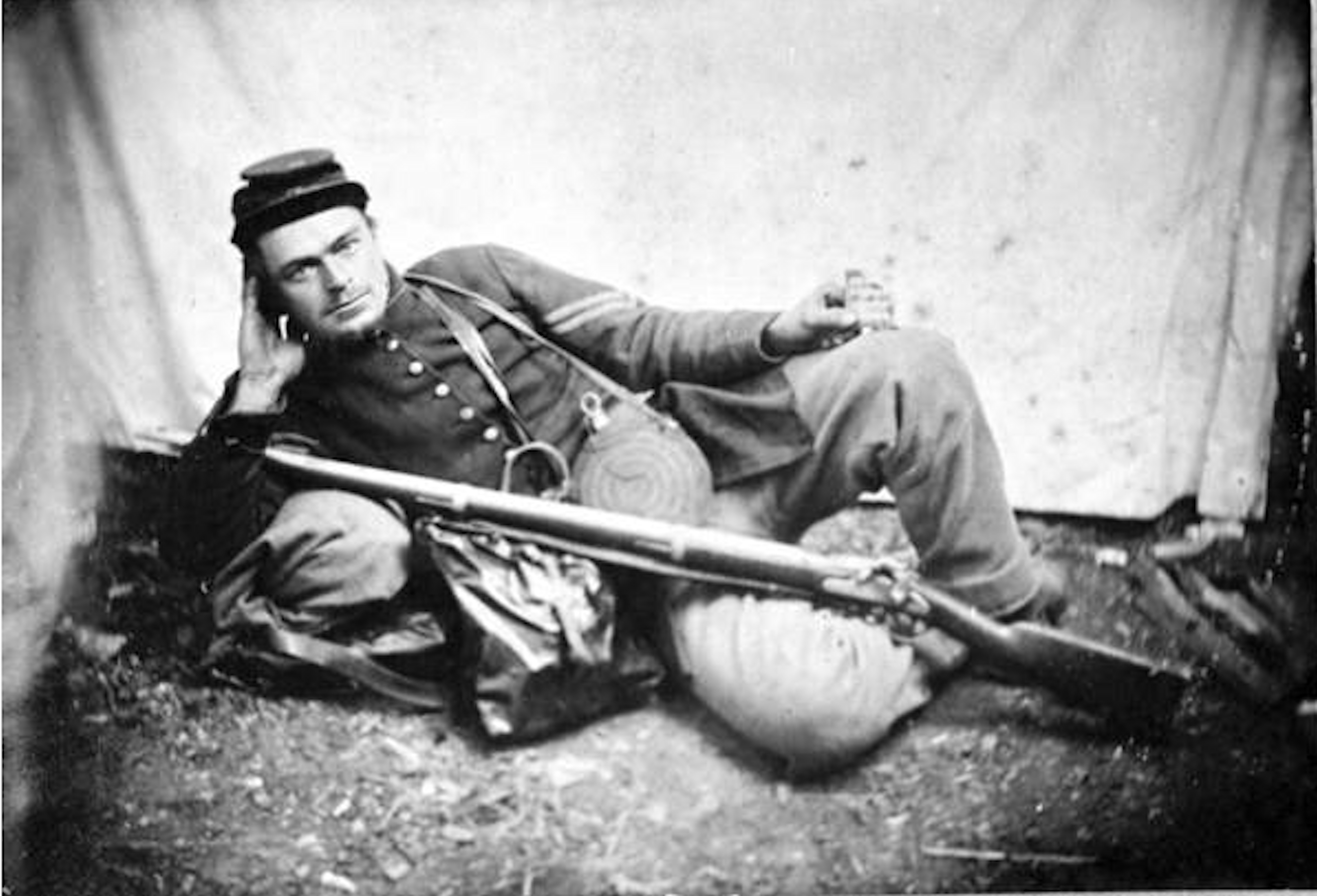 Medal of Honor winner Ignatz Gresser